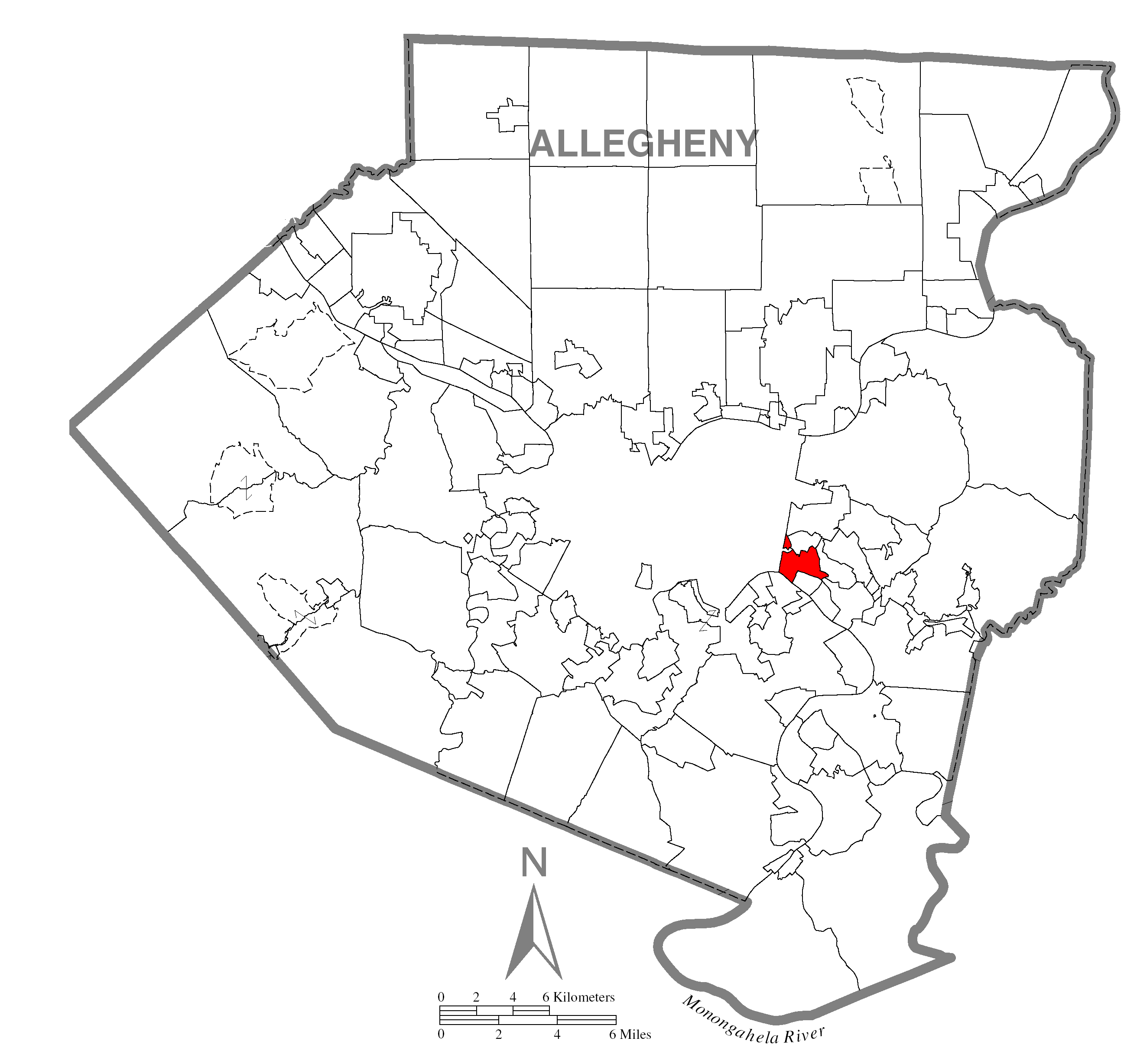 A map of Allegheny County showing Swissvale, Pennsylvania (alternate) highlighted on the map.